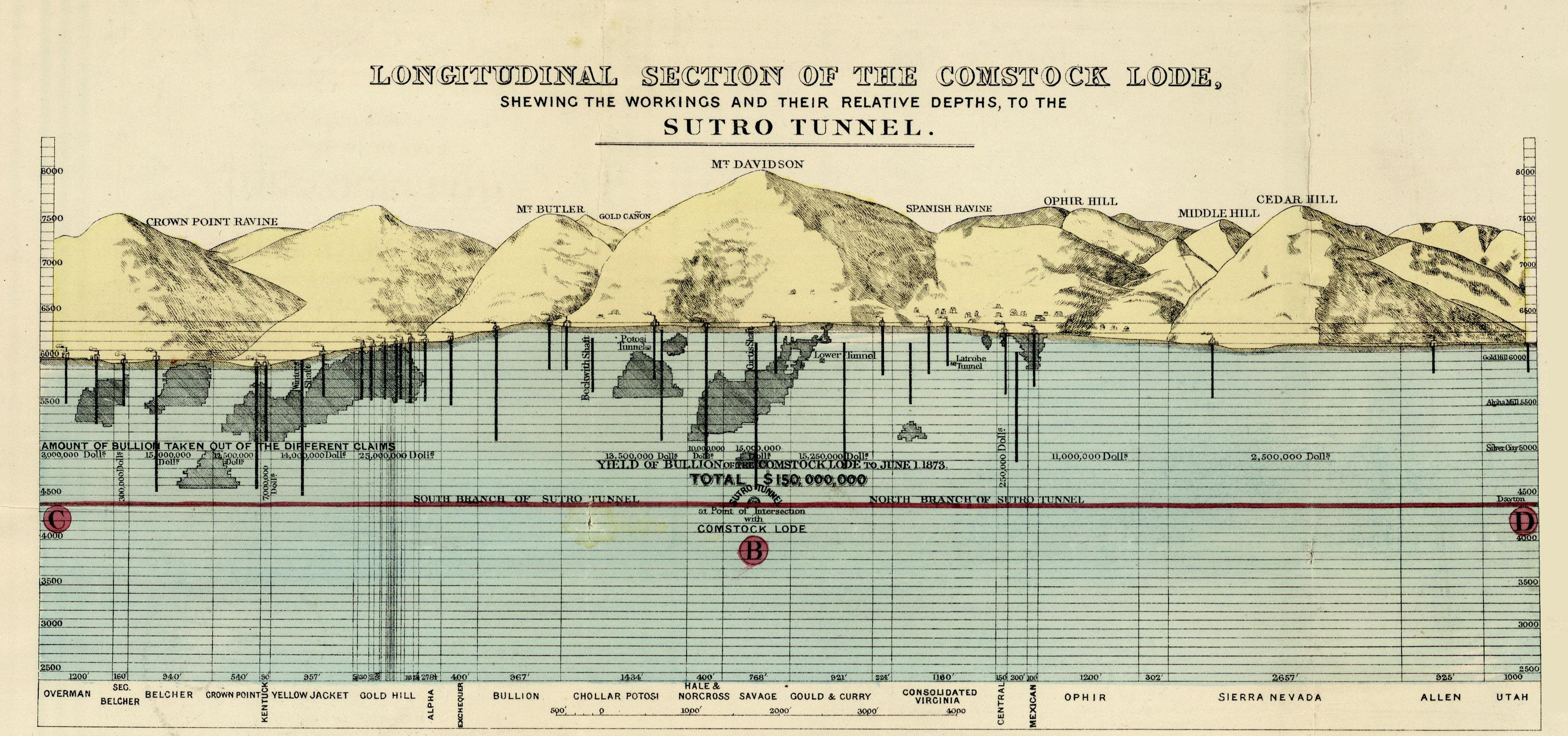 Author Stanford's Geographical Establishment Date 1873 Short Title Sutro Tunnel And The Comstock Lode State Of Nevada Publisher Stanford's Geographical Establishment Publisher Location London Type Separate Map Obj Height cm 57 Obj Width cm 55 Scale 1 33,240 Note Color map measuring 42x32.5, with two profiles on one sheet. Relief shown by contour lines. State/Province Nevada County Storey County Lyon Region Comstock Lode Region Sutro Tunnel Subject Mining Full Title Topographical Map Showing the Locations of the Sutro Tunnel And The Comstock Lode State Of Nevada, United States Of America. Reduced and Compiled from U. States Govt. Surveys &c. at Stanford's Geographical Estabt. London, June, 1873. (with) Profile Of Sutro Tunnel ... Lithographed at Stanford's Geogl. Estabt., London. (with) Longitudinal Section Of The Comstock Lode, Shewing The Workings And Their Relative Depths, To The Sutro Tunnel. List No 5303.001 Series No 1 Publication Author Stanford's Geographical Establishment Pub Date 1873 Pub Title Topographical Map Showing the Locations of the Sutro Tunnel And The Comstock Lode State Of Nevada, United States Of America. Reduced and Compiled from U. States Govt. Surveys &c. at Stanford's Geographical Estabt. London, June, 1873. (with) Profile Of Sutro Tunnel ... Lithographed at Stanford's Geogl. Estabt., London. (with) Longitudinal Section Of The Comstock Lode, Shewing The Workings And Their Relative Depths, To The Sutro Tunnel. Pub Note One map measuring 42x32.5, with two profiles on one sheet. Pub List No 5303.000 Pub Type Separate Map Pub Height cm 57 Pub Width cm 55 Image No 5303001 Download 1 Full Image Download in MrSID Format Download 2 GeoViewer for JP2 and SID files Authors Stanford's Geographical Establishment